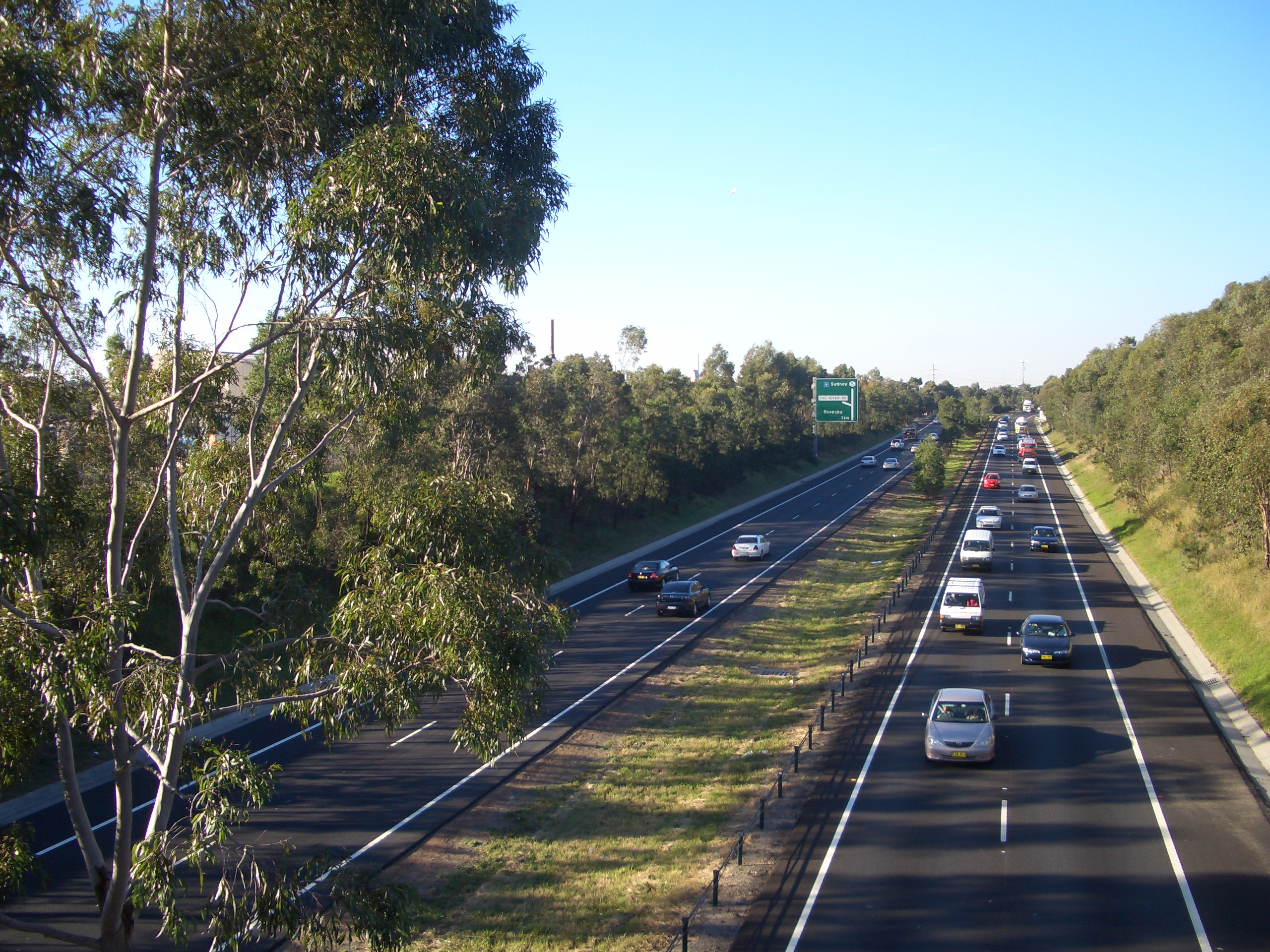 Sydney M5 South Western Motorway, Revesby